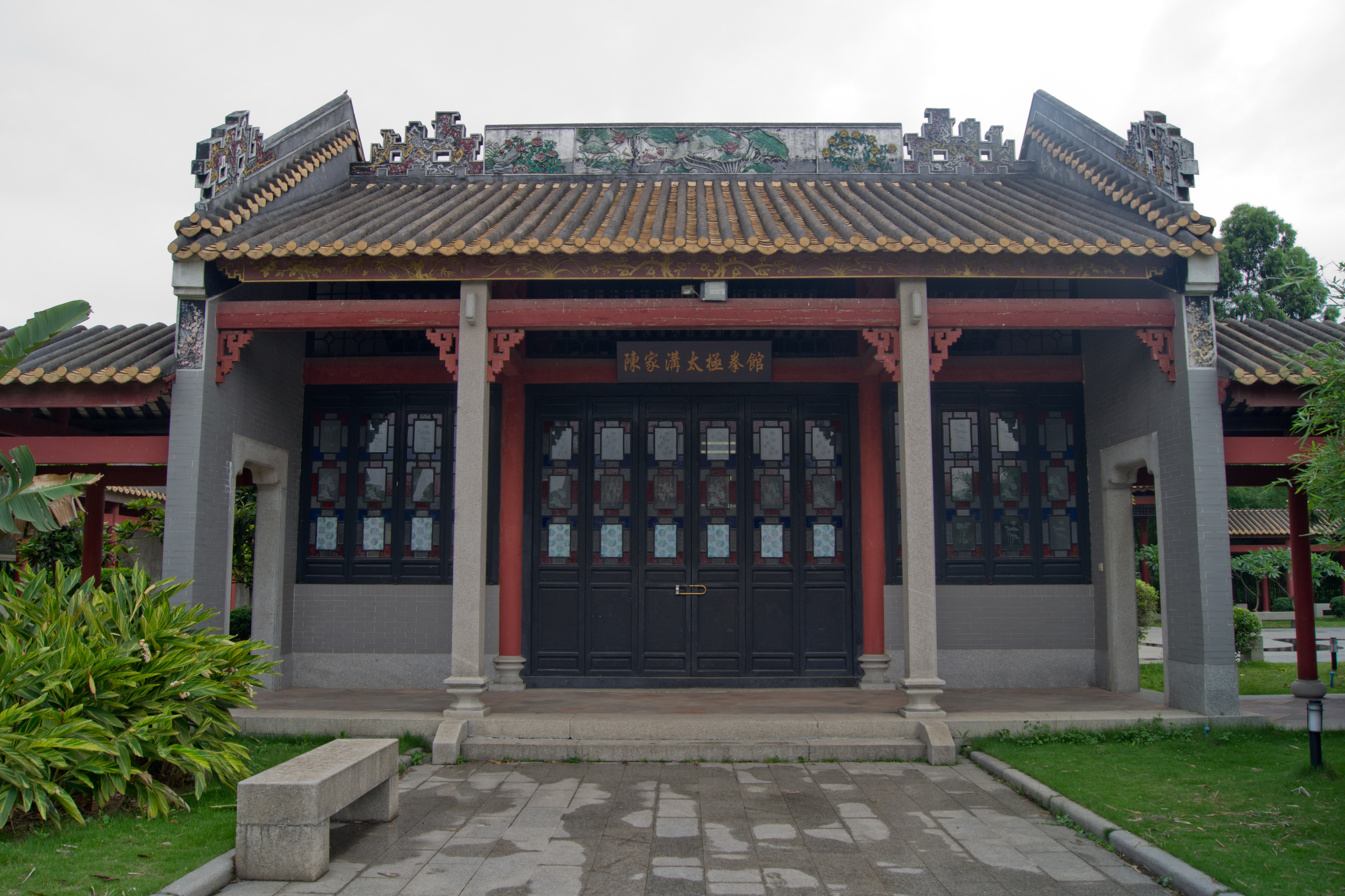 Chen Jiagou Tai Chi Gymnasium